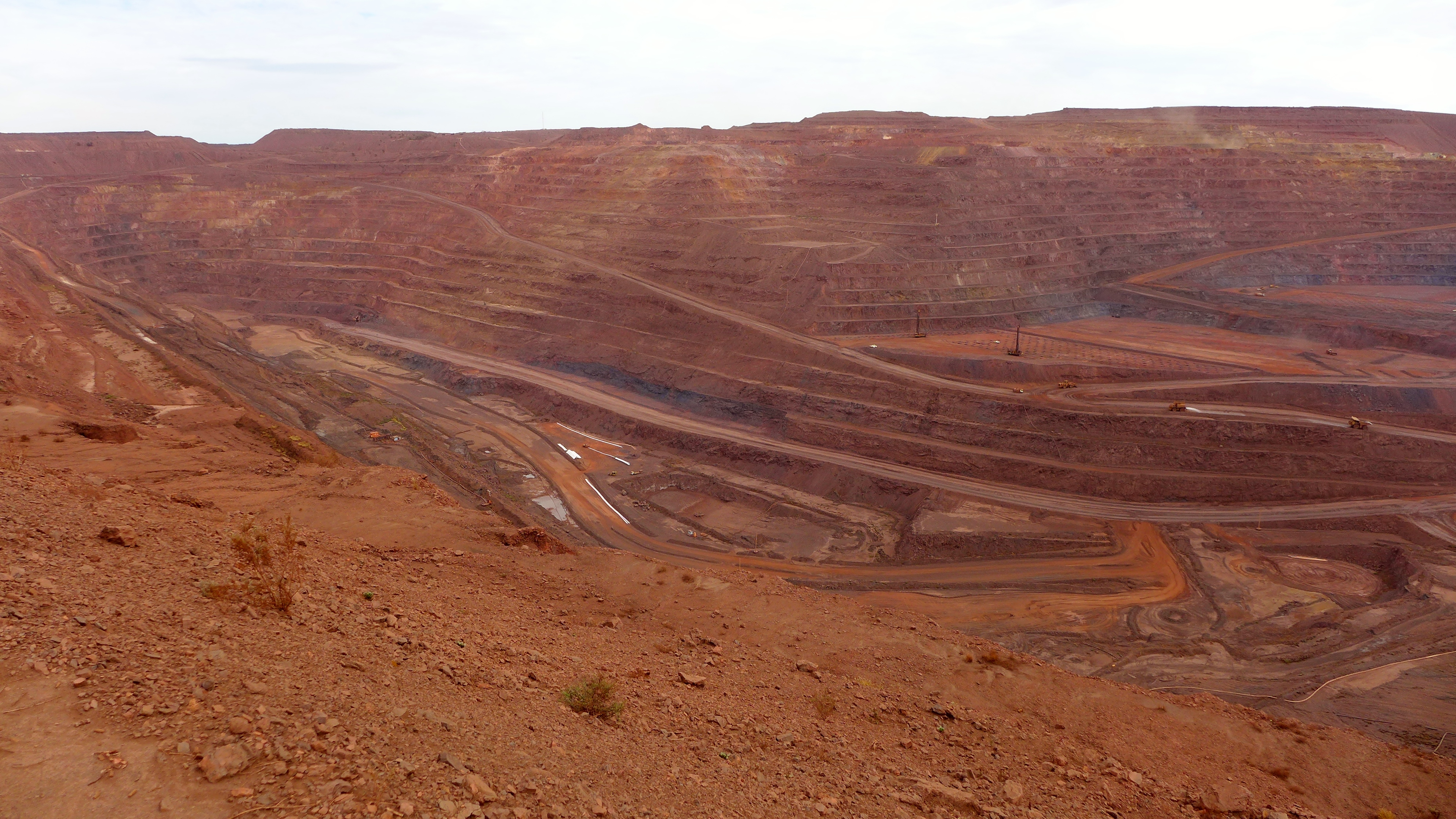 View into the open cut Mount Whaleback mine, near Newman, Western Australia, from the lookout visited by the Mount Whaleback mine tour.